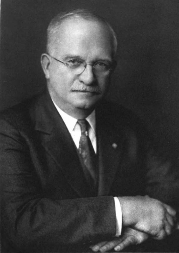 Photograph of Charles Lathrop Parsons from the book: Downs, Winfield Scott, editor (1936). Encyclopedia of American biography: New series. 5. New York: American Historical Company. pp. 286–287. No copyright renewal. No photographer identified.